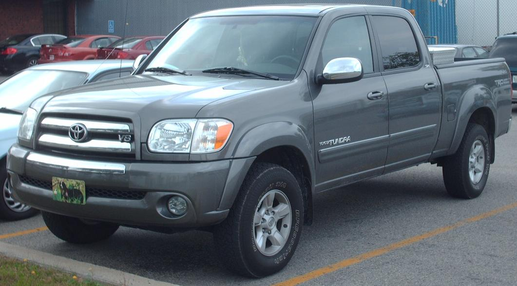 2004-2006 Toyota Tundra Double Cab photographed in Montreal, Quebec, Canada.